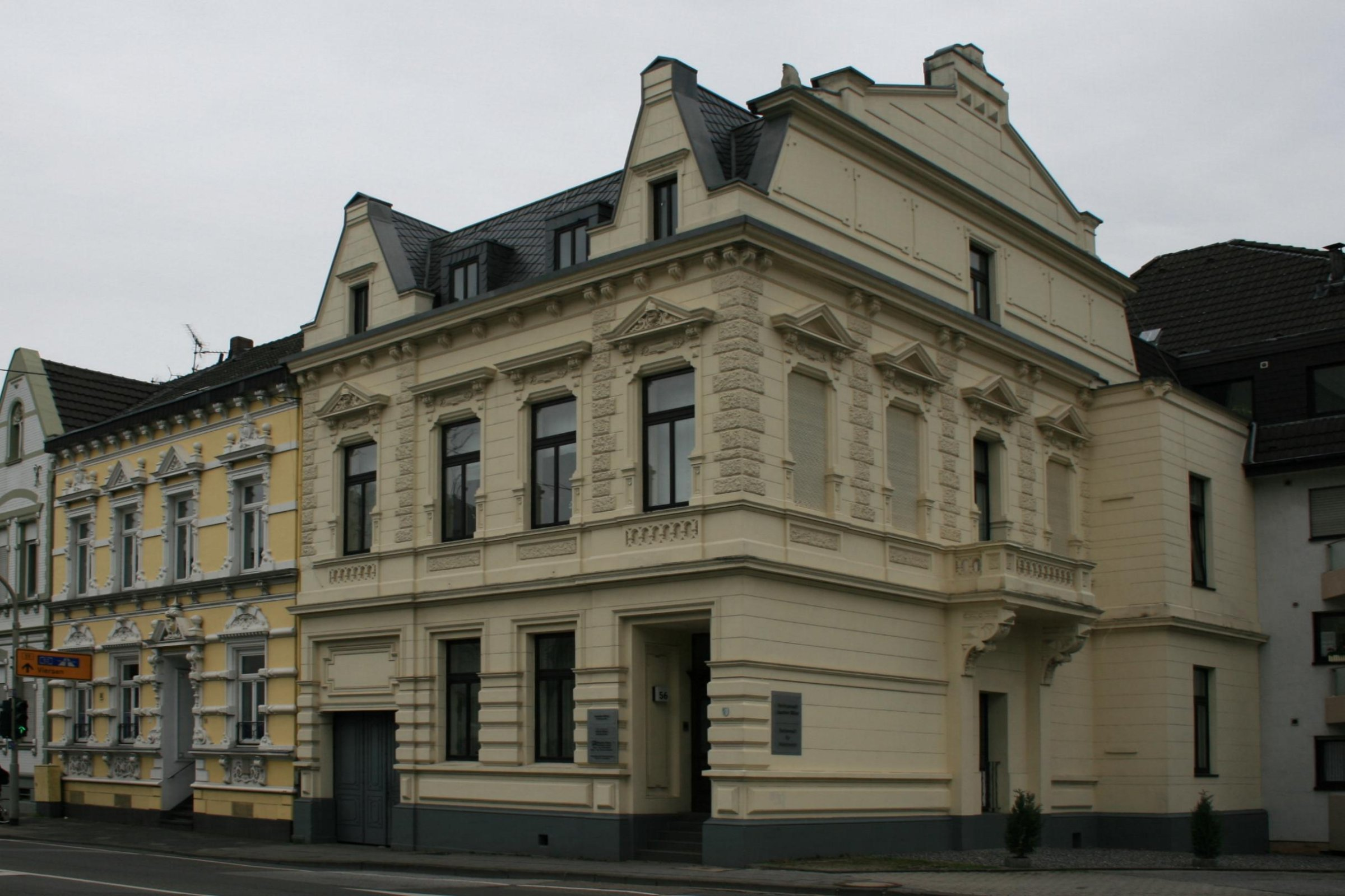 Cultural heritage monument No. V 005 in Mönchengladbach